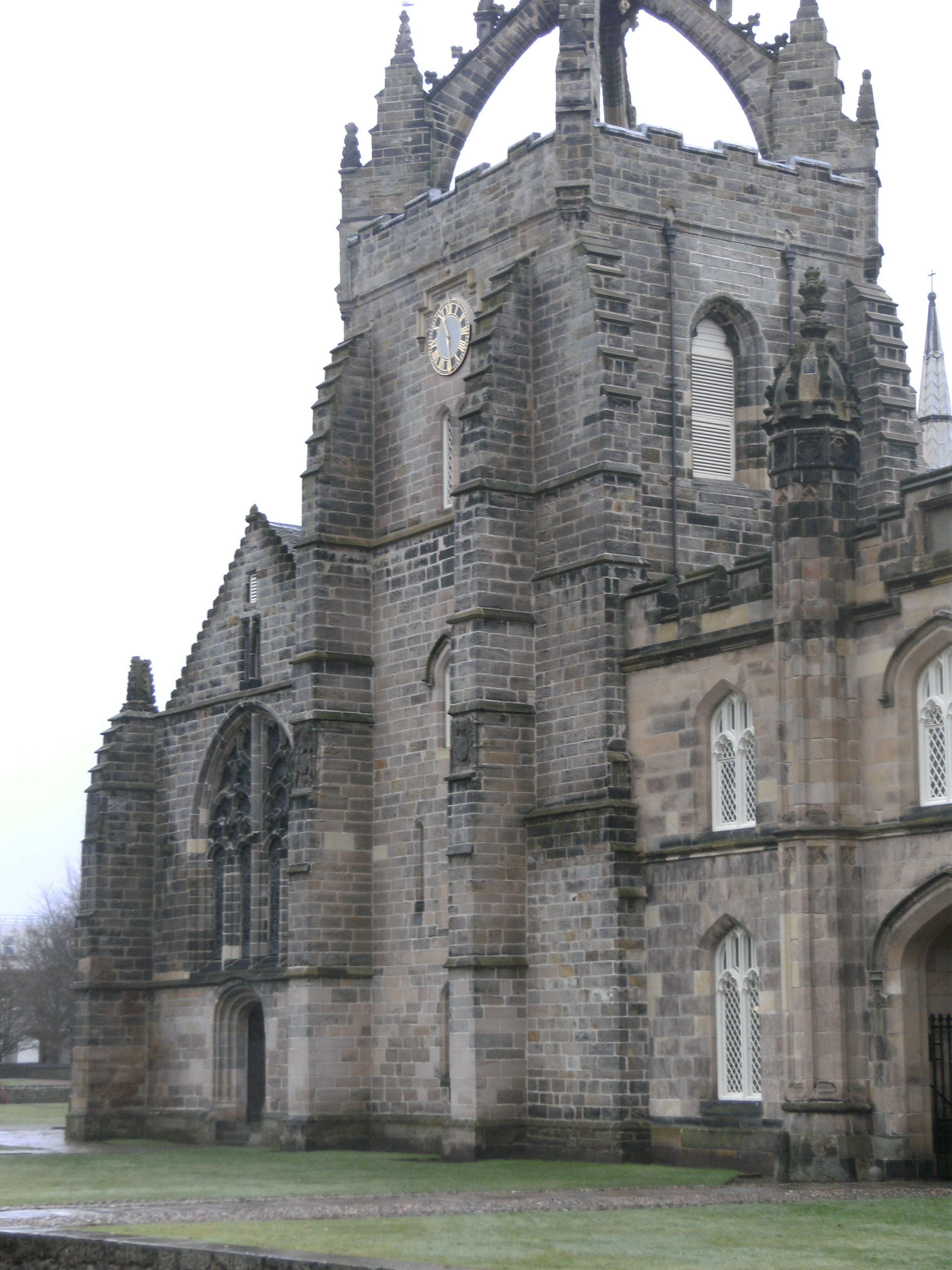 King's College